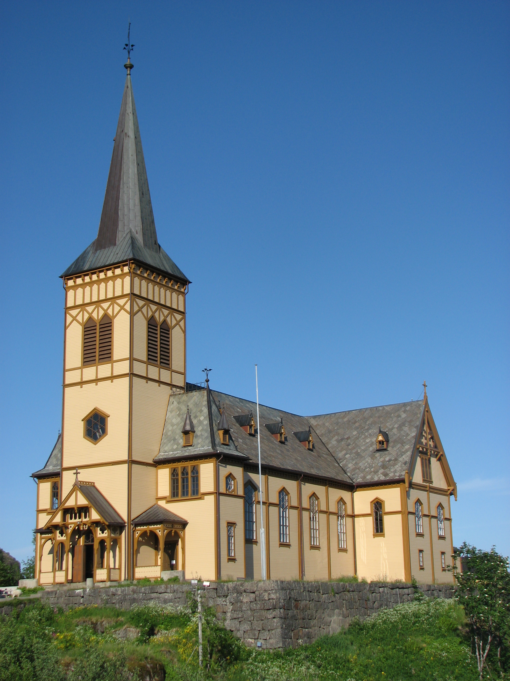 Vågan Church (Lofoten Cathedral) in Kabelvåg, Nordland in Norway from 1898. Wooden church in Gothic revival style. Architect Carl Julius Bergstrøm.